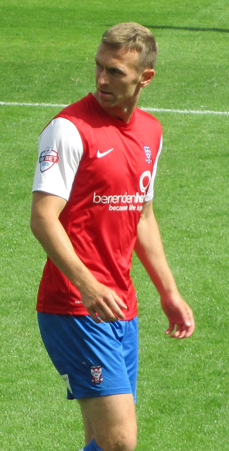 Ryan Jarvis playing for York City against Northampton Town at Bootham Crescent, York on 3 August 2013